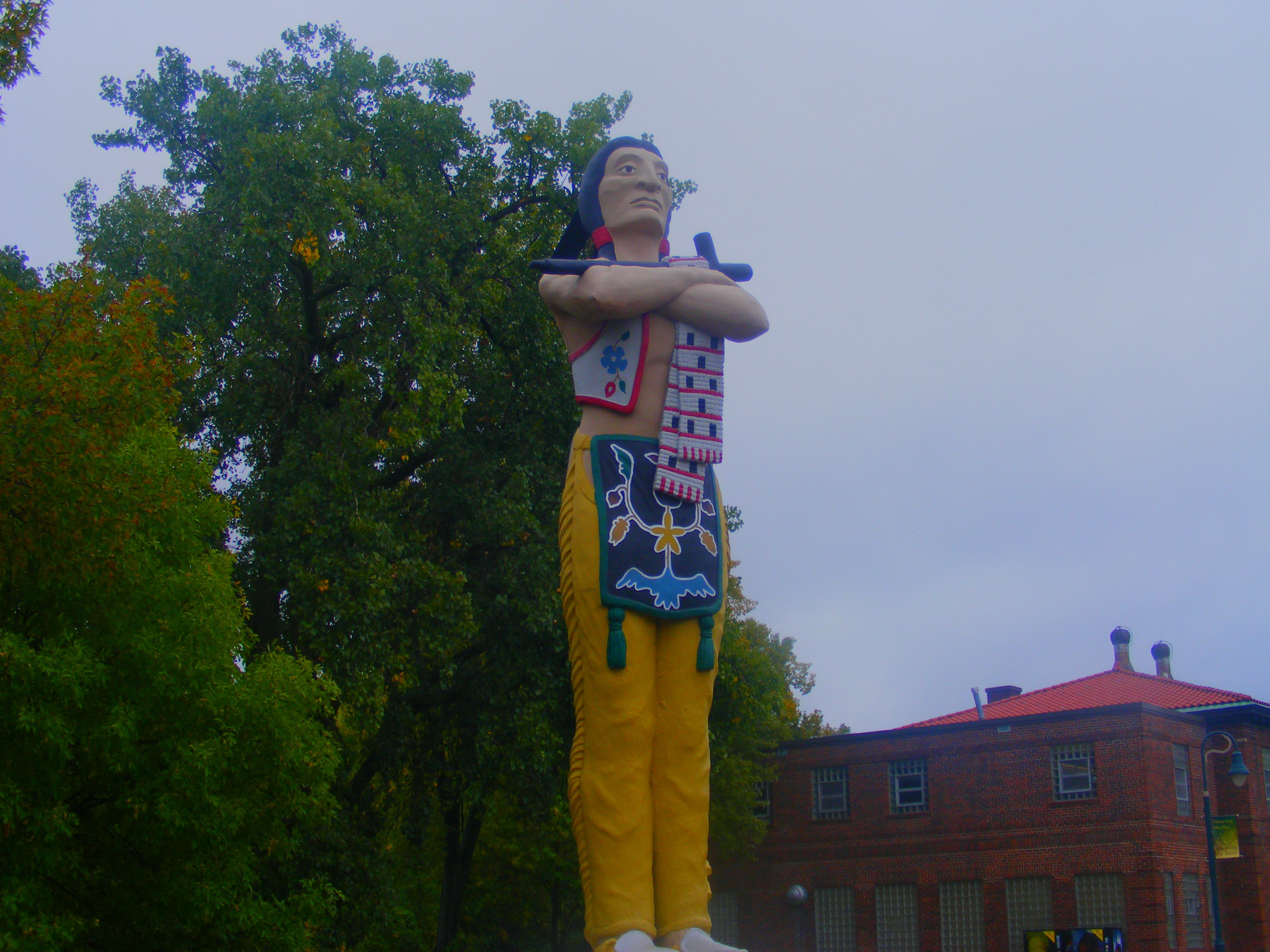 Chief Hiawatha statue